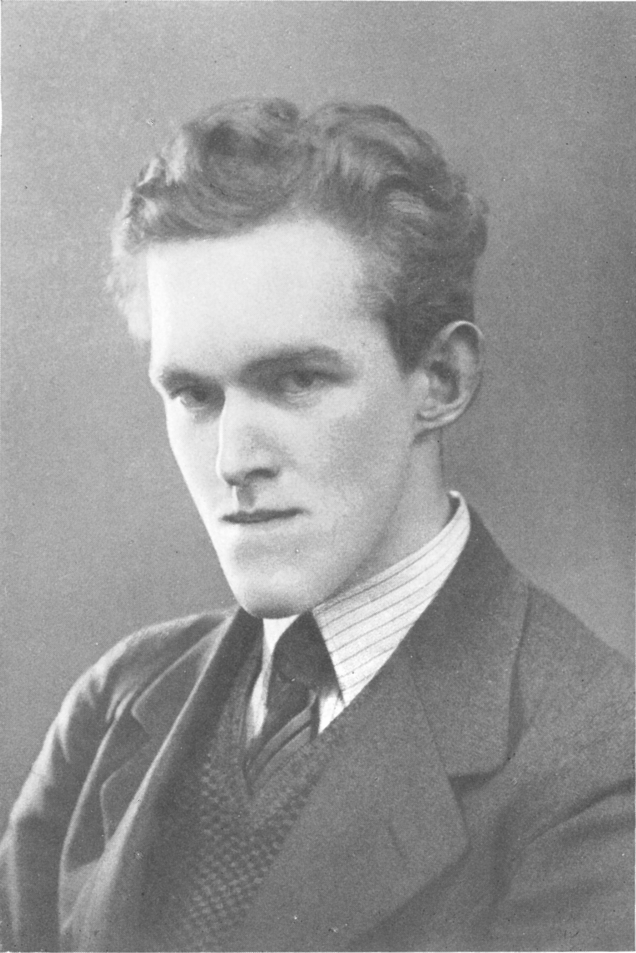 Self portrait of the author, from his book.